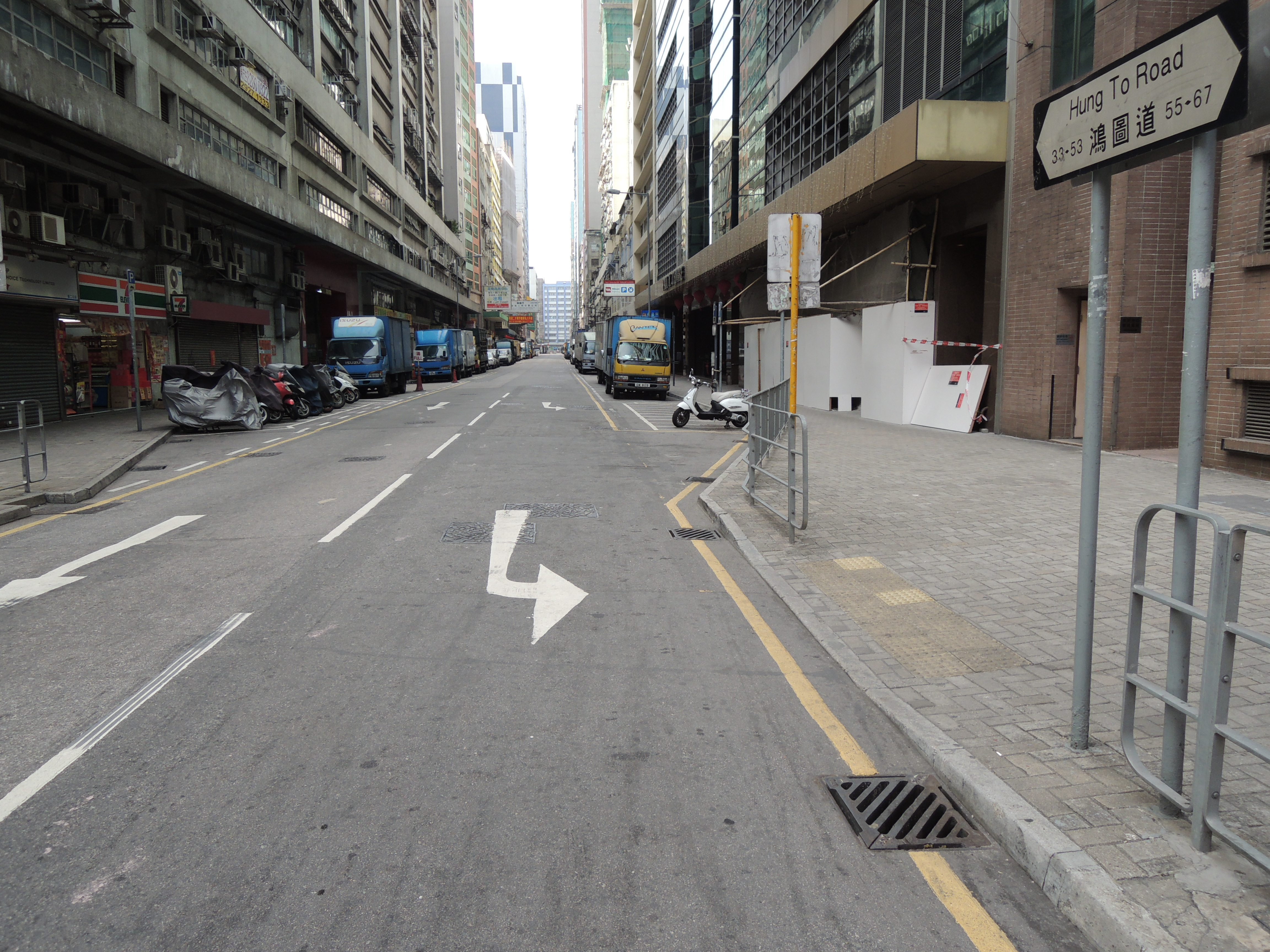 Hung To Road (Kwun Tong, Kowloon, Hong Kong) 中文（香港）: 鴻圖道 (香港九龍觀塘)